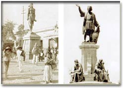 Monuments in Paseo de la Reforma, Mexico.